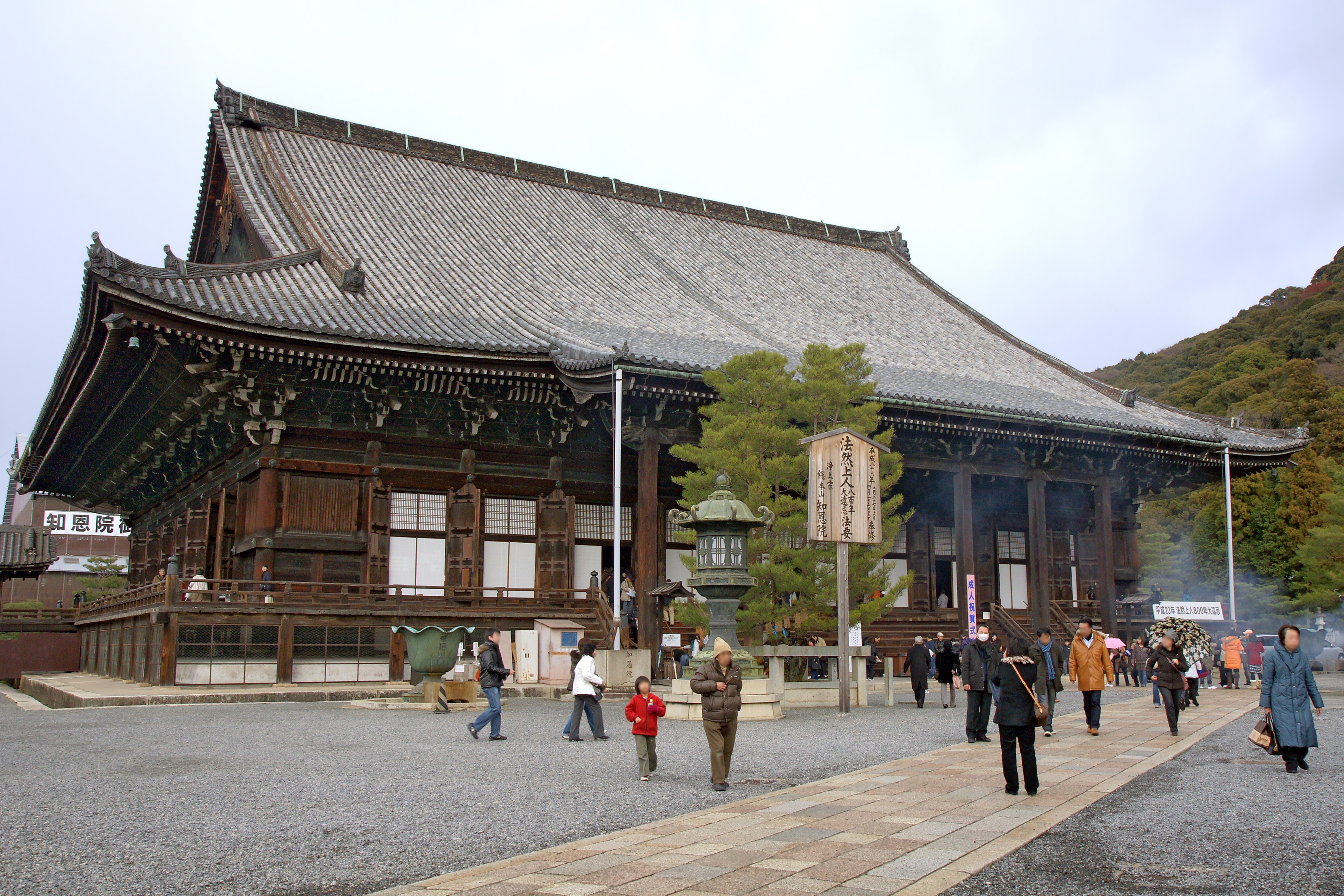 Chion-in's Main Hall is a Japan's National Treasure in Kyoto, Kyoto Prefecture, Japan It was rebuilt in 1639.